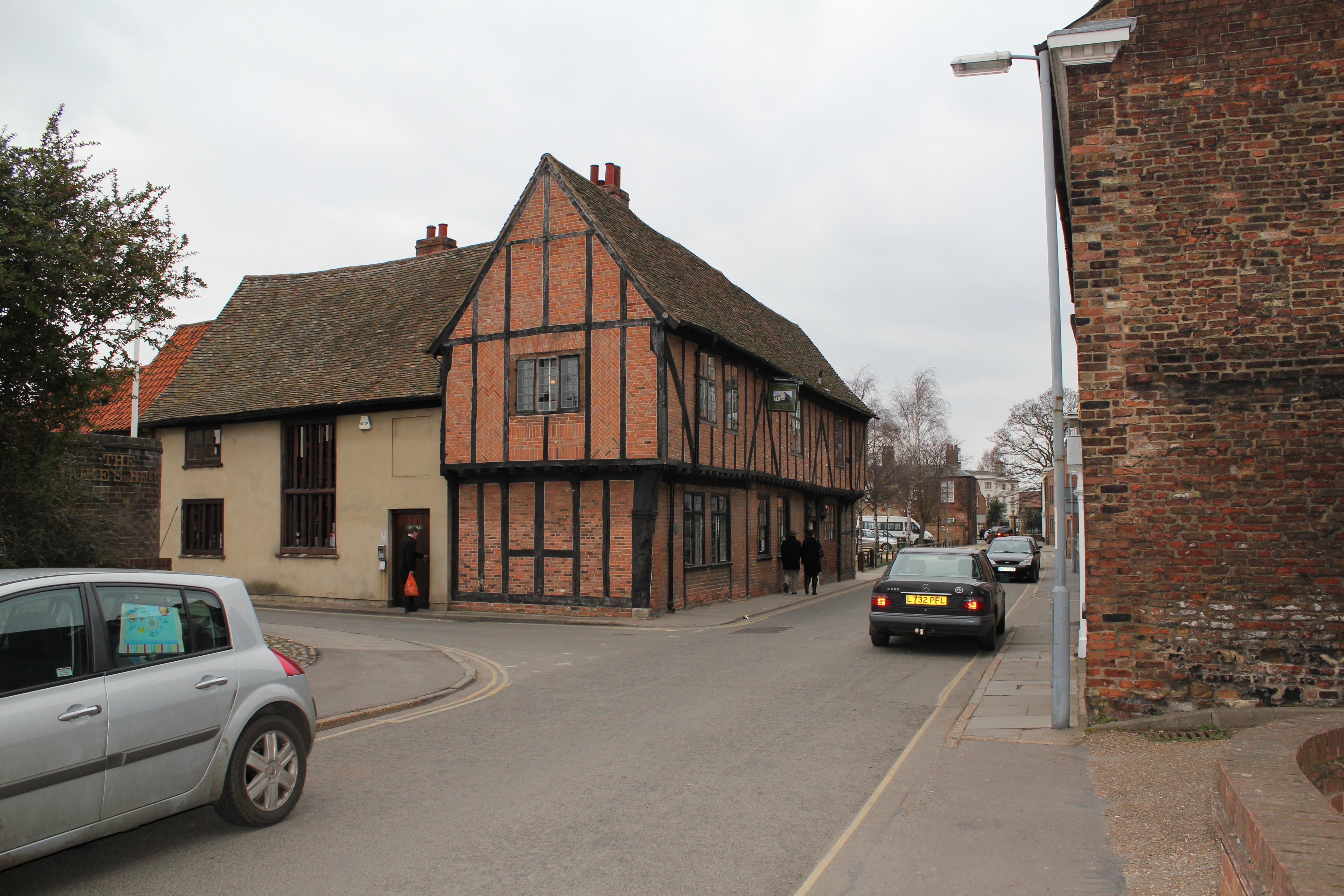 Ancient building in Kings Lynn, presently a public house.